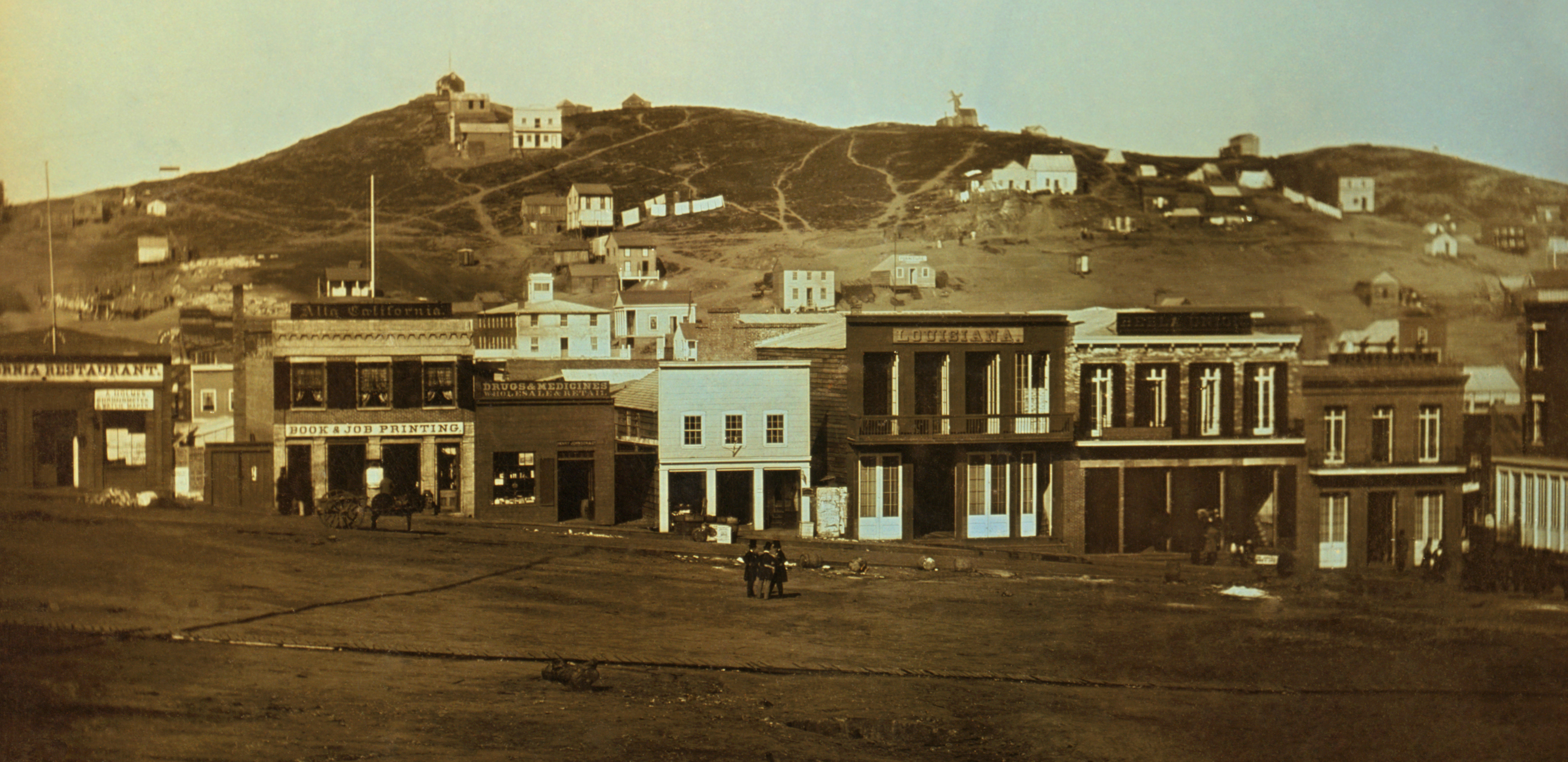 Portsmouth Square near harbor in 1851 — San Francisco during the Gold Rush. Early daguerrotype. Signs in image include: California Restaurant, Book and Job Printing, Louisiana, Sociedad, Drugs & Medicines Wholesale & Retail, Henry Johnson & Co, Alta California, Bella Union, A. Holmes.